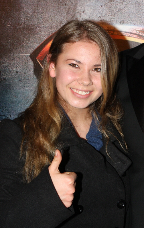 Bindi Irwin at Man Of Steel red carpet movie premiere, Sydney, in June 2013